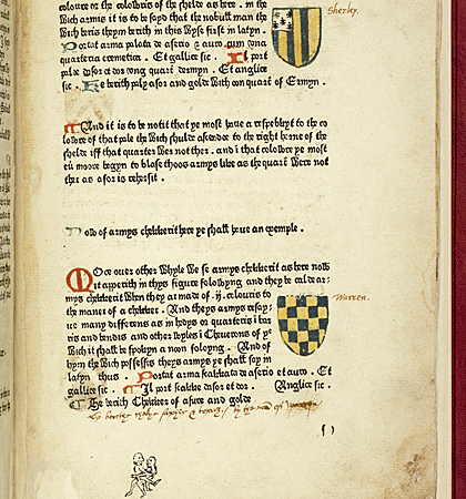 Inc.3.J.4.1[3636], fol. 65v, colour printing, after 1486. (c.1388-), Book of hawking, hunting and blasing of arms (Book of St Albans) St Albans: Schoolmaster Printer, [not before 1486]